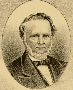 Portrait of New York state senator Andrew S. Warner